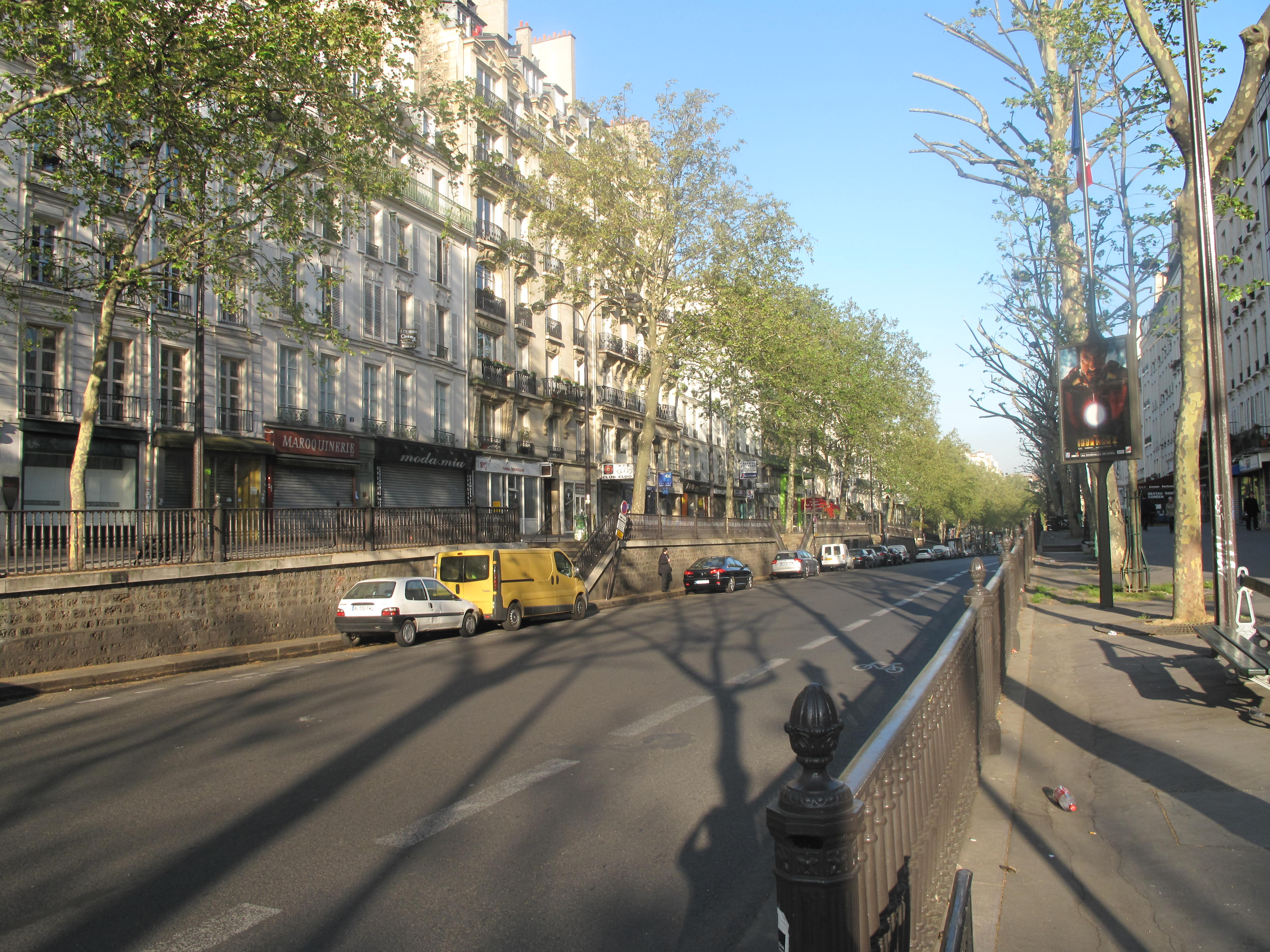 The Boulevard Saint-Martin, Paris 3rd arr. Created at the foot and in place of the wall of Charles V, the pavement has been digged to make easier transits of horses cars without hard climb or descent. But the sidewalks stay higher.